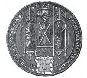 Copyright expired, Taken from book History of the Religious House of Plucardyn by SR MacPhail published 1881, Edinburgh.